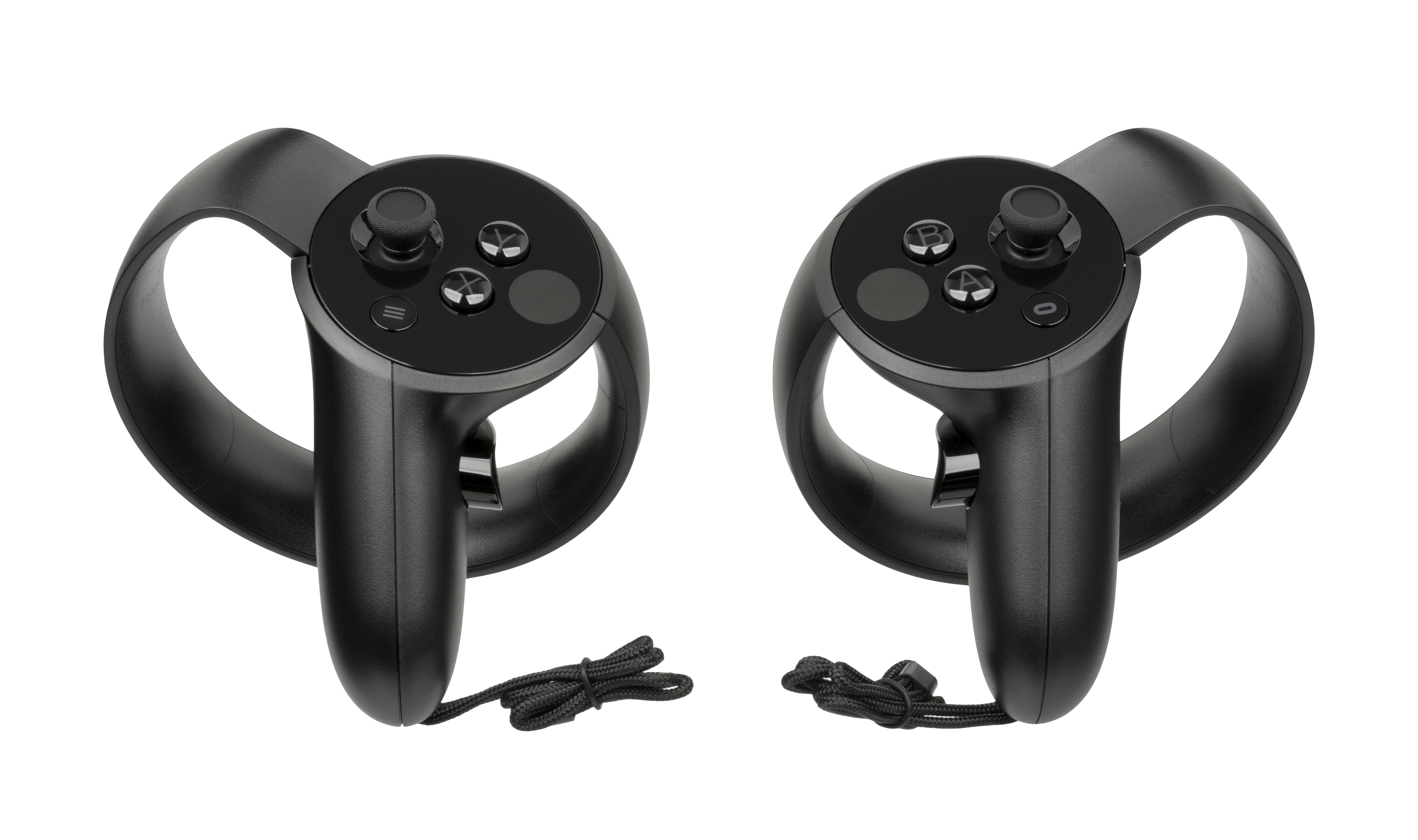 The Touch controllers for the Oculus Rift CV1 (Consumer Version 1), a virtual reality headset made by Oculus VR and released in 2016. The Touch controllers were released in late 2016, months after the headset launched, and brought hand tracking to the Rift. Initially a separate bundle with both Touch controllers and an extra sensor (the Touch controllers need at least two to operate), the Touch controllers were bundled with the headset starting in August 2017.